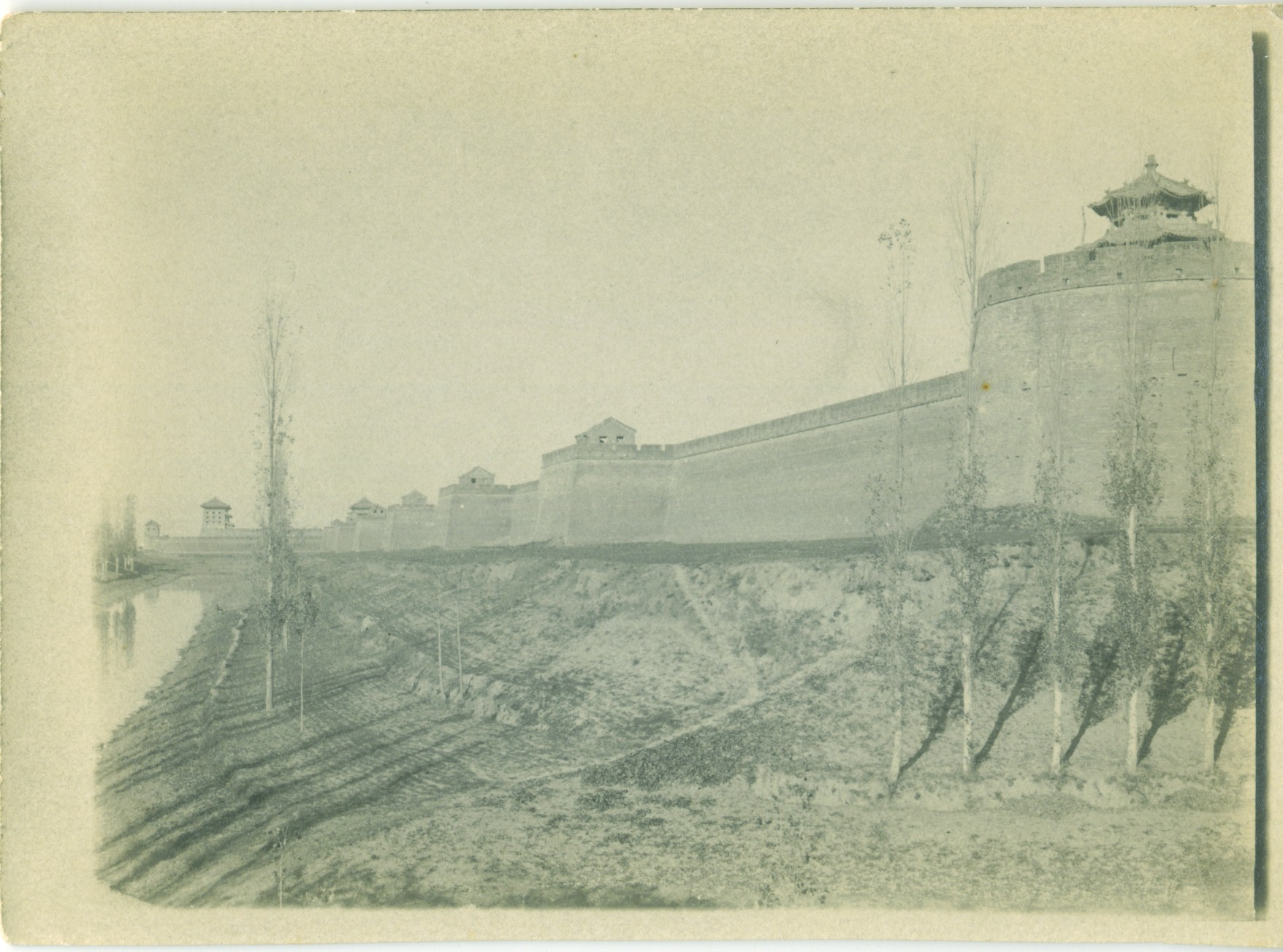 Scan of image of Xi'an city wall, China, taken c. 1908 by Baptist missionary John Shields.